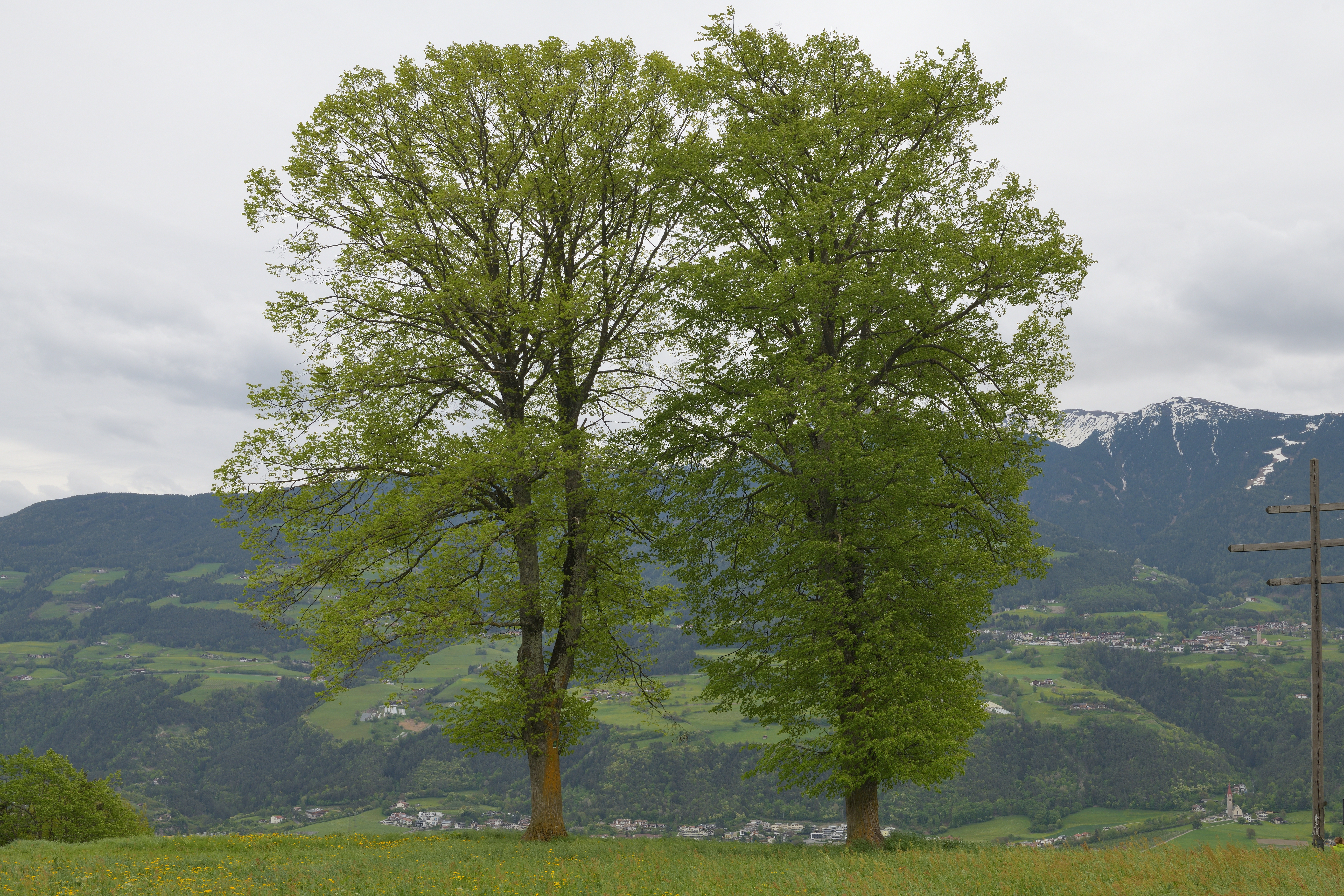 Linden trees Tilia × europaea in Pinzagen (Brixen) South Tyrol - Natural monument in South Tyrol - natural monuments in South Tyrol